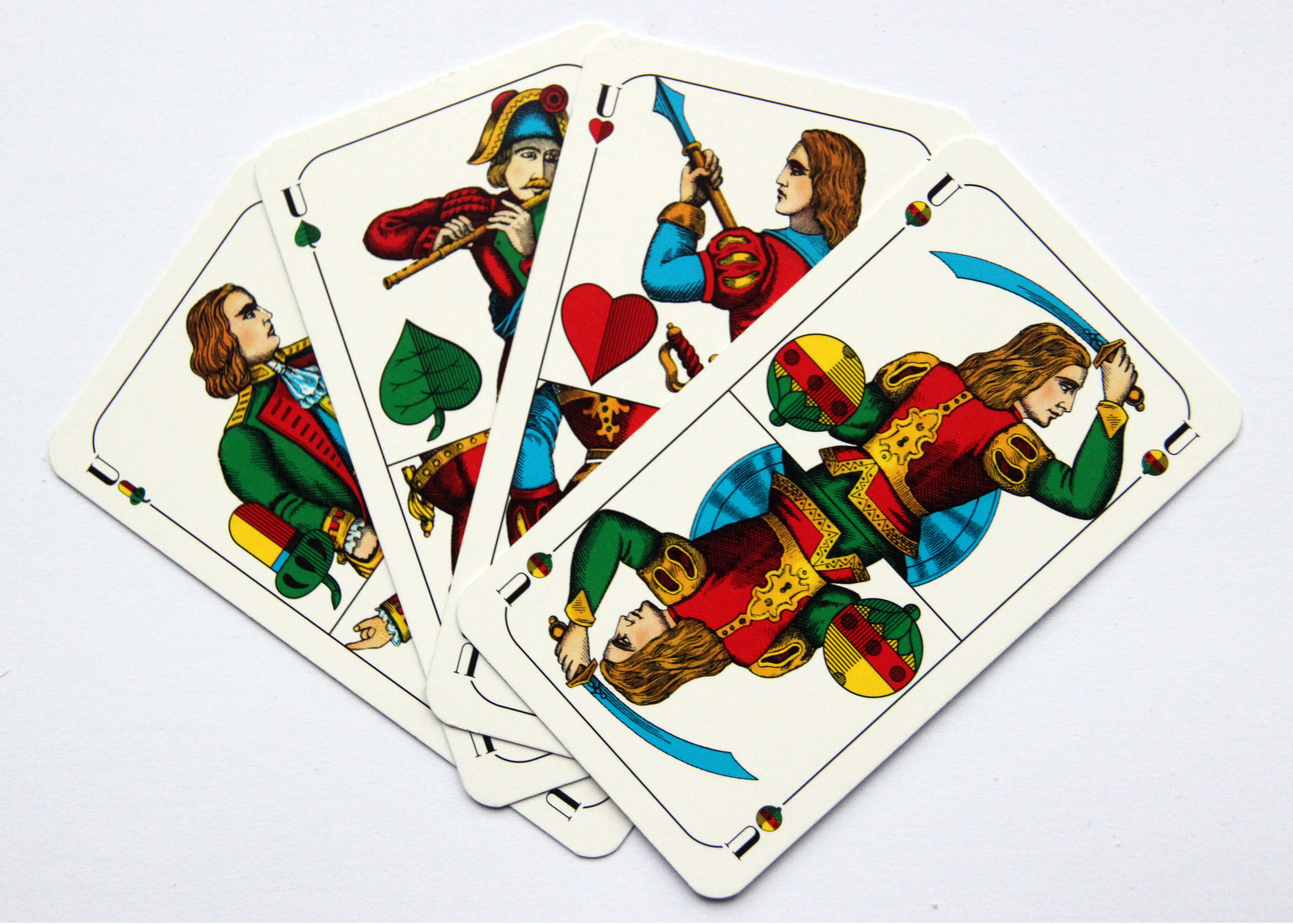 The four Unters in Schafkopf from a Bavarian-pattern pack